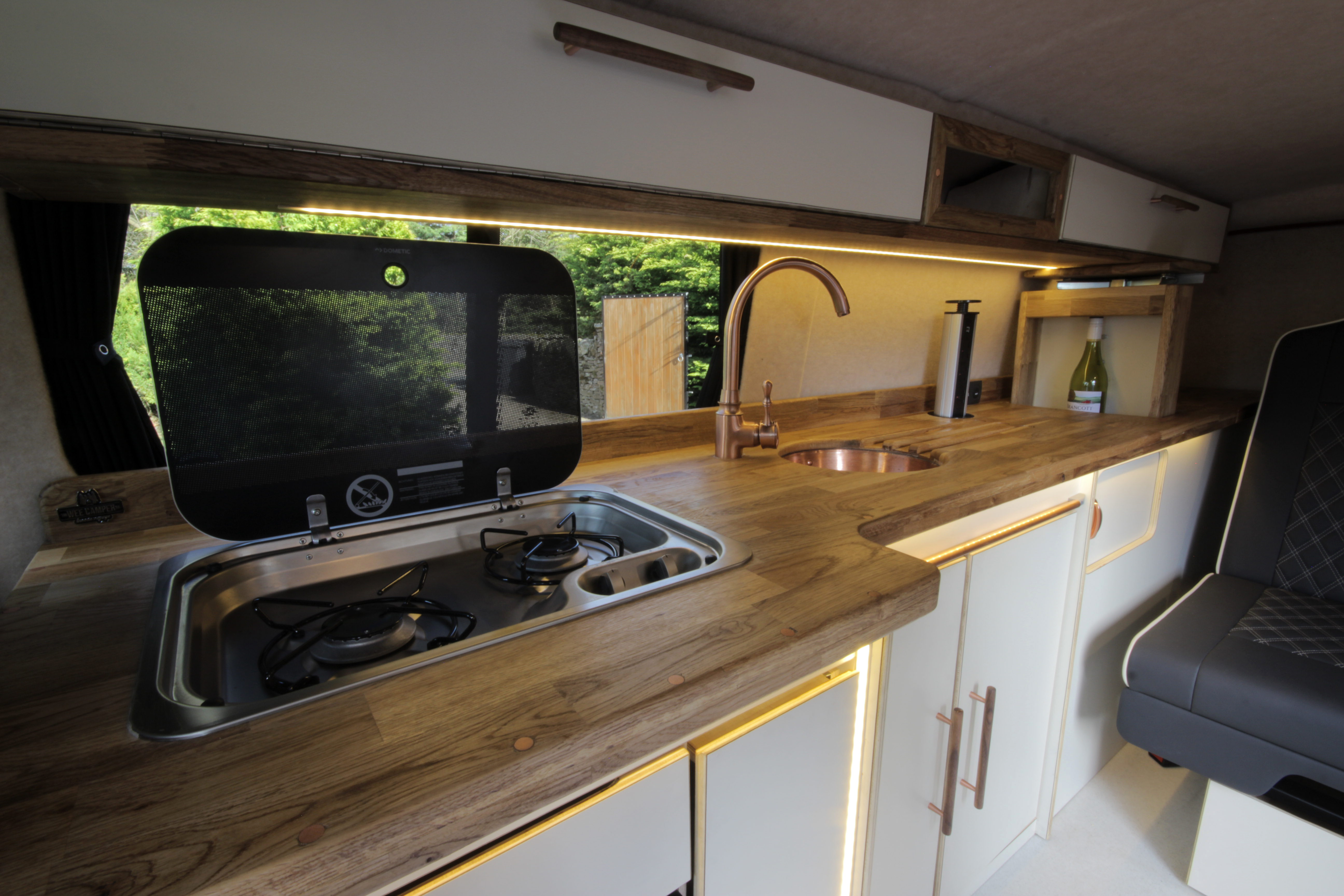 A bespoke campervan interior built by Scottish company 'The Wee Camper Co' in 2019. The company specialise in the conversion of campervans.